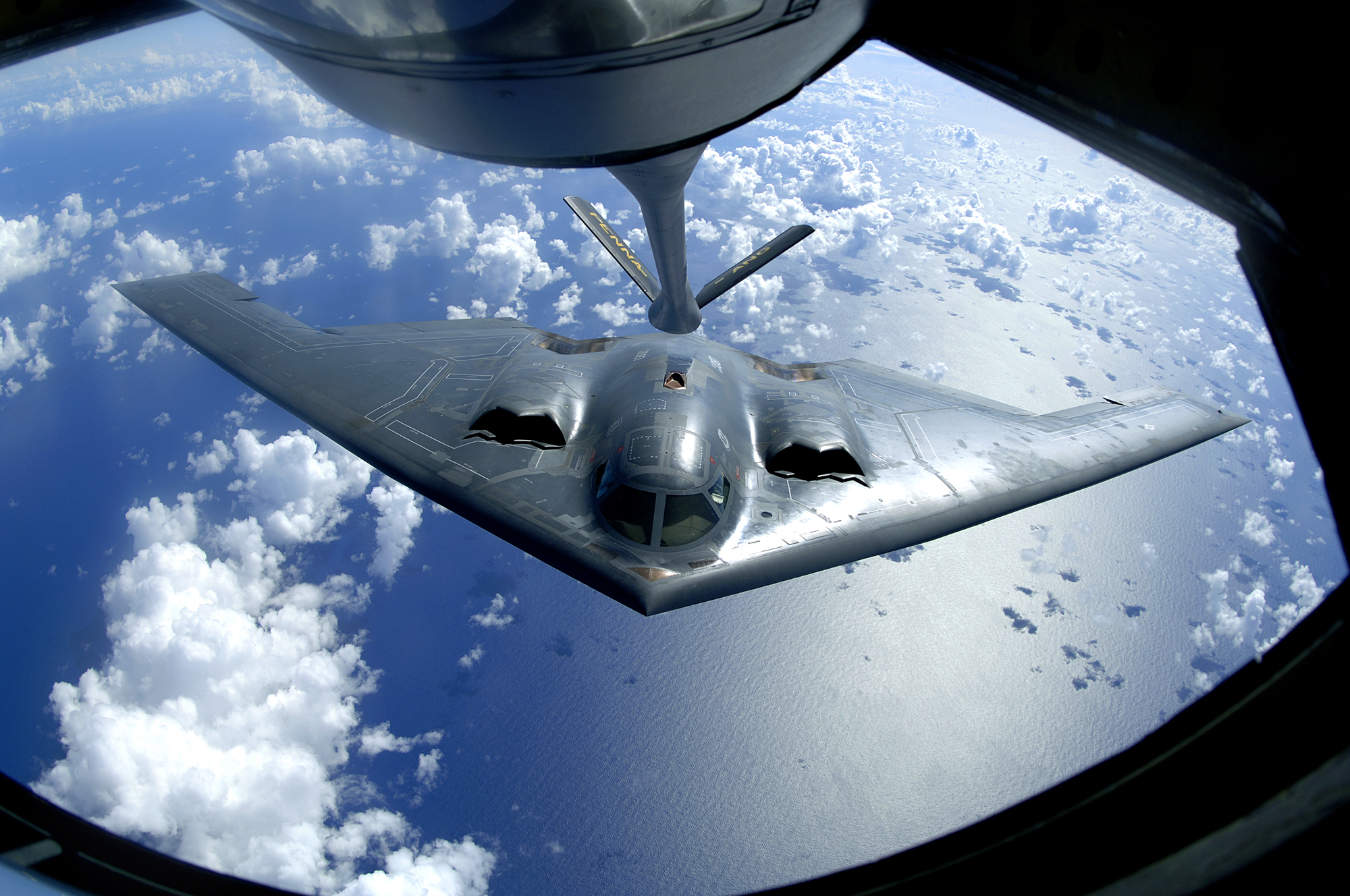 A B-2 Spirit moves into position for refueling from a KC-135 Stratotanker over the Pacific Ocean on Tuesday, May 30, 2006. The B-2 is from the 509th Bomb Wing at Whiteman Air Force Base, Mo., and the KC-135 is from the Pennsylvania Air National Guard's 171st Air Refueling Wing at the Pittsburgh International Airport. The bomber is part of Pacific Command's continuous bomber presence in the Asia-Pacific region. (U.S. Air Force photo/Staff Sgt. Bennie J. Davis III)